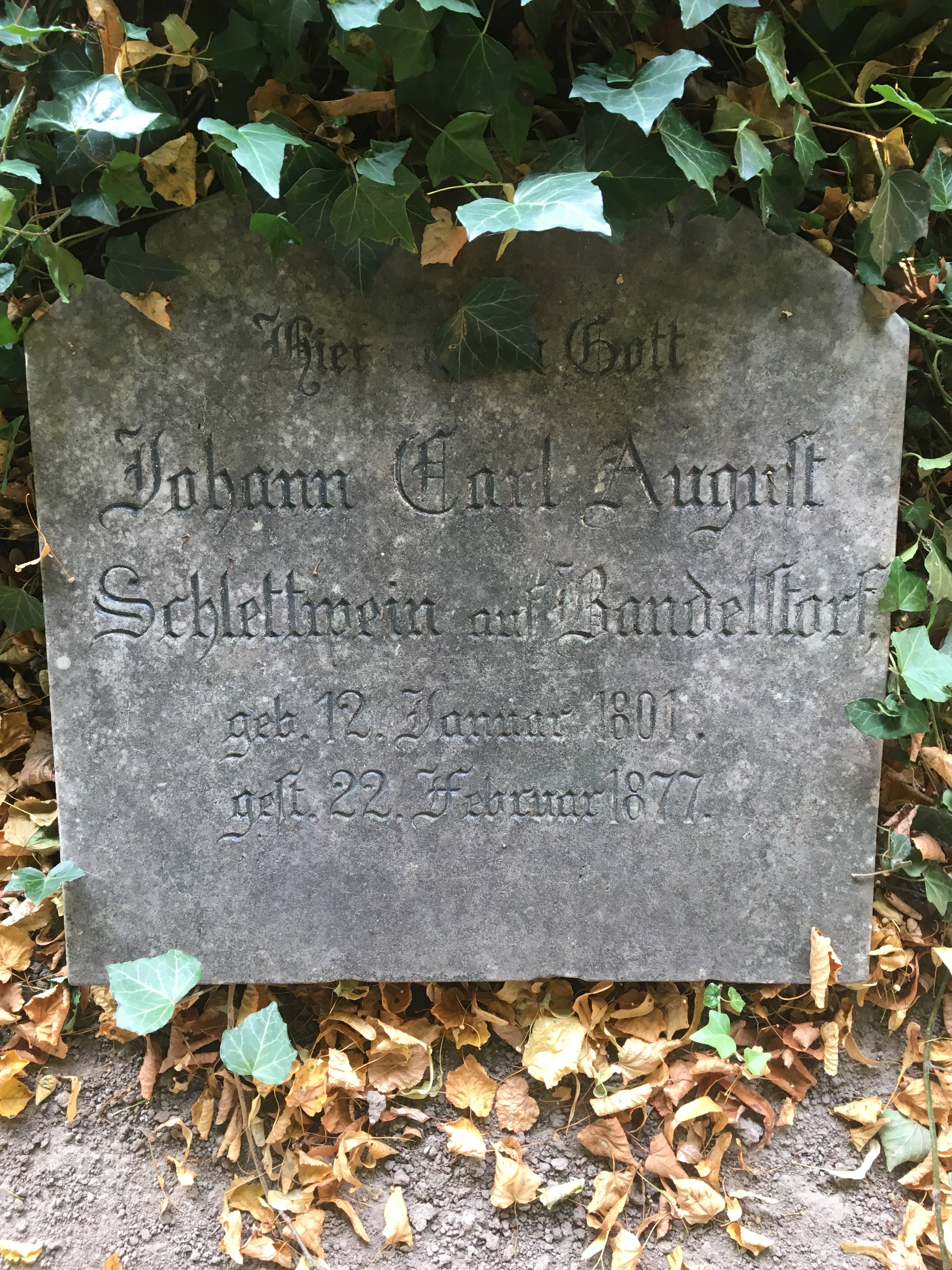 Burial of the Schlettwein family on the churchyard of the church in Petschow.